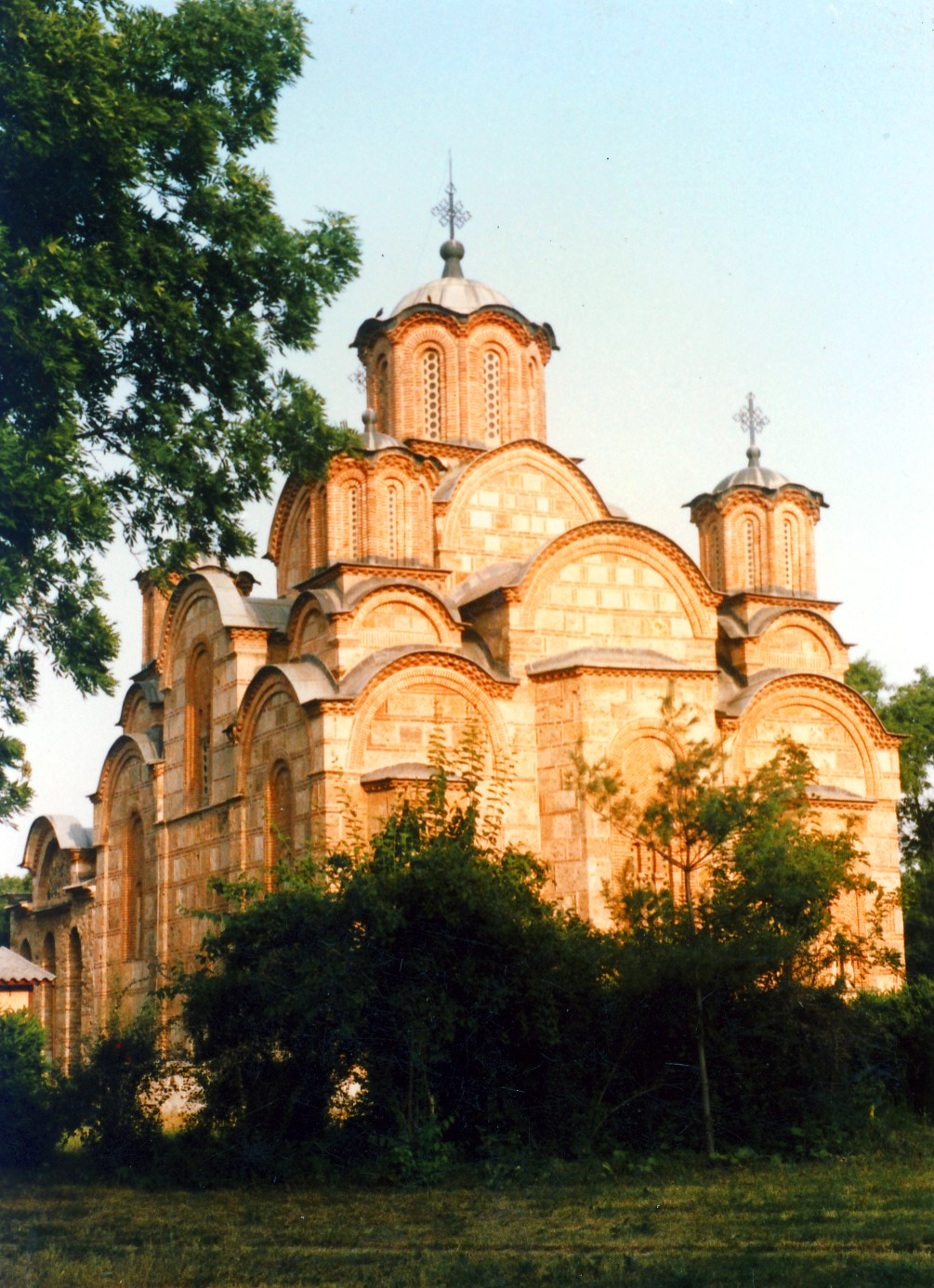 Gracanica Monastary, Kosovo Serbia